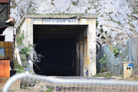 Entrance to William's Way, a tunnel in Gibraltar